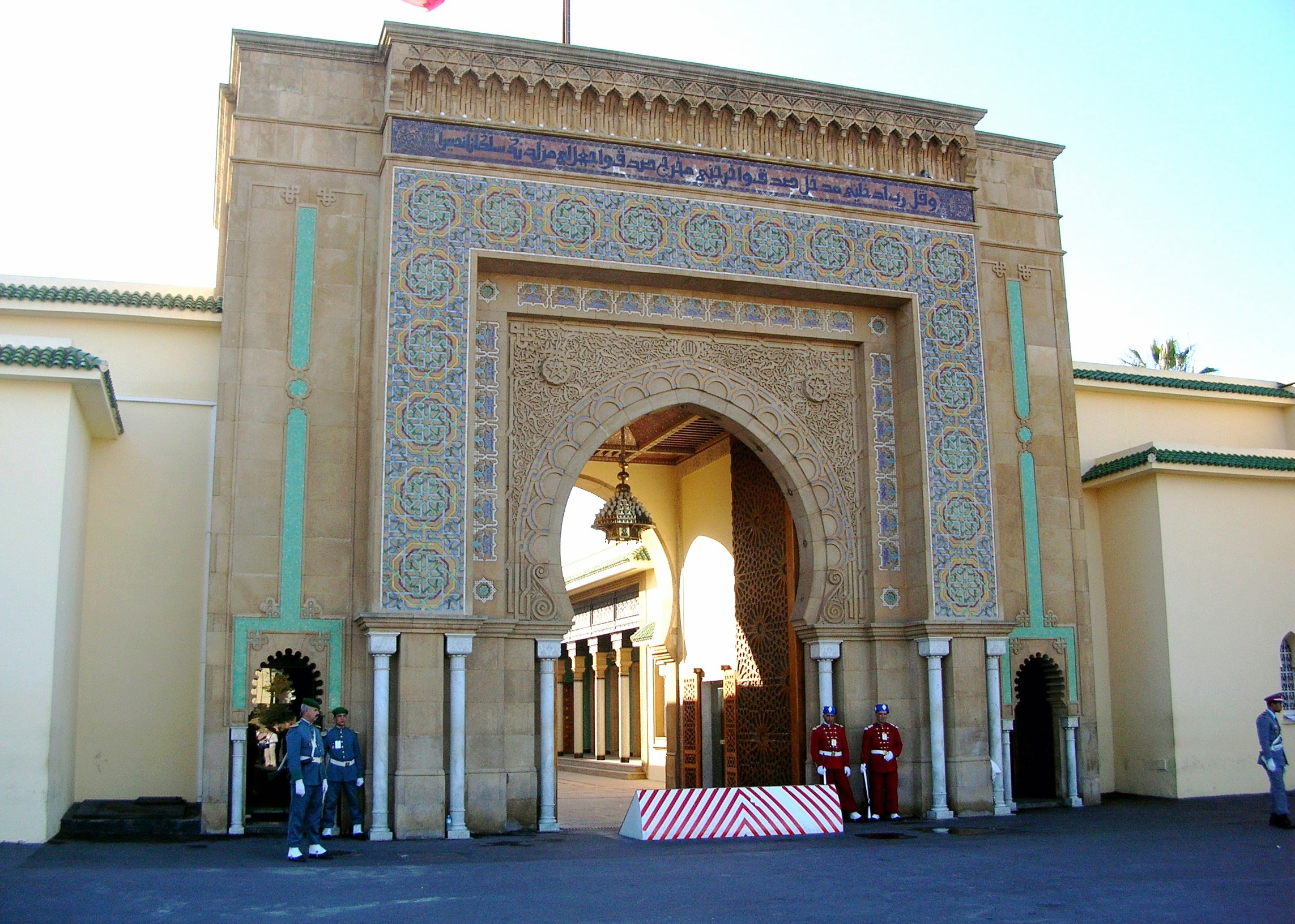 Royal Palace, Rabat, Morocco